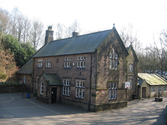 Rivington Primary School The school stands on the site first occupied by Rivington Free Grammar School which was founded in 1566 by James Pilkington, Bishop of Durham. Much of the school was rebuilt in 1714 after being destroyed by fire. In 1882, when the Grammar School was re-housed in what is now Rivington and Blackrod High School, the present building became an elementary school.